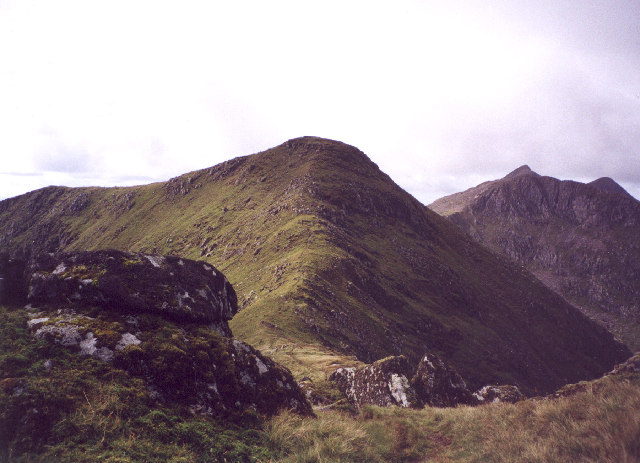 the summit of Sron an Isean. looking SW to Stob Daimh, with Ben Cruachan beyond